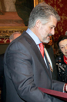 Manuel Marín, President of the Spanish Congress of Deputies